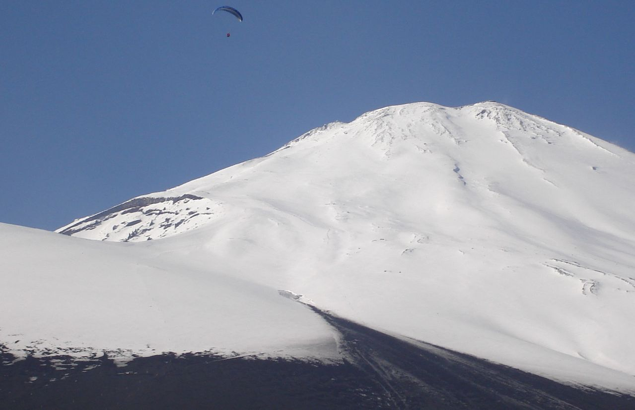 Close view of the Mount Fuji from the Gotenba parking lote. photographer: Devchonka pilot: Dima Part of the Hōei-zan peak is seen at the left hand side.